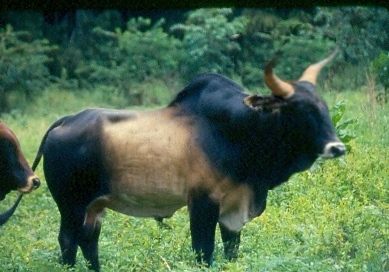 Reconstruction of Bos namadicus transformed image based on: Image of a zebu uploaded by author L. Mahin Horn shape based on: Raphael Pumpelly: Explorations in Turkestan : Expedition of 1904 : vol.2, p. 361 (online link to Bos namadicus skull)